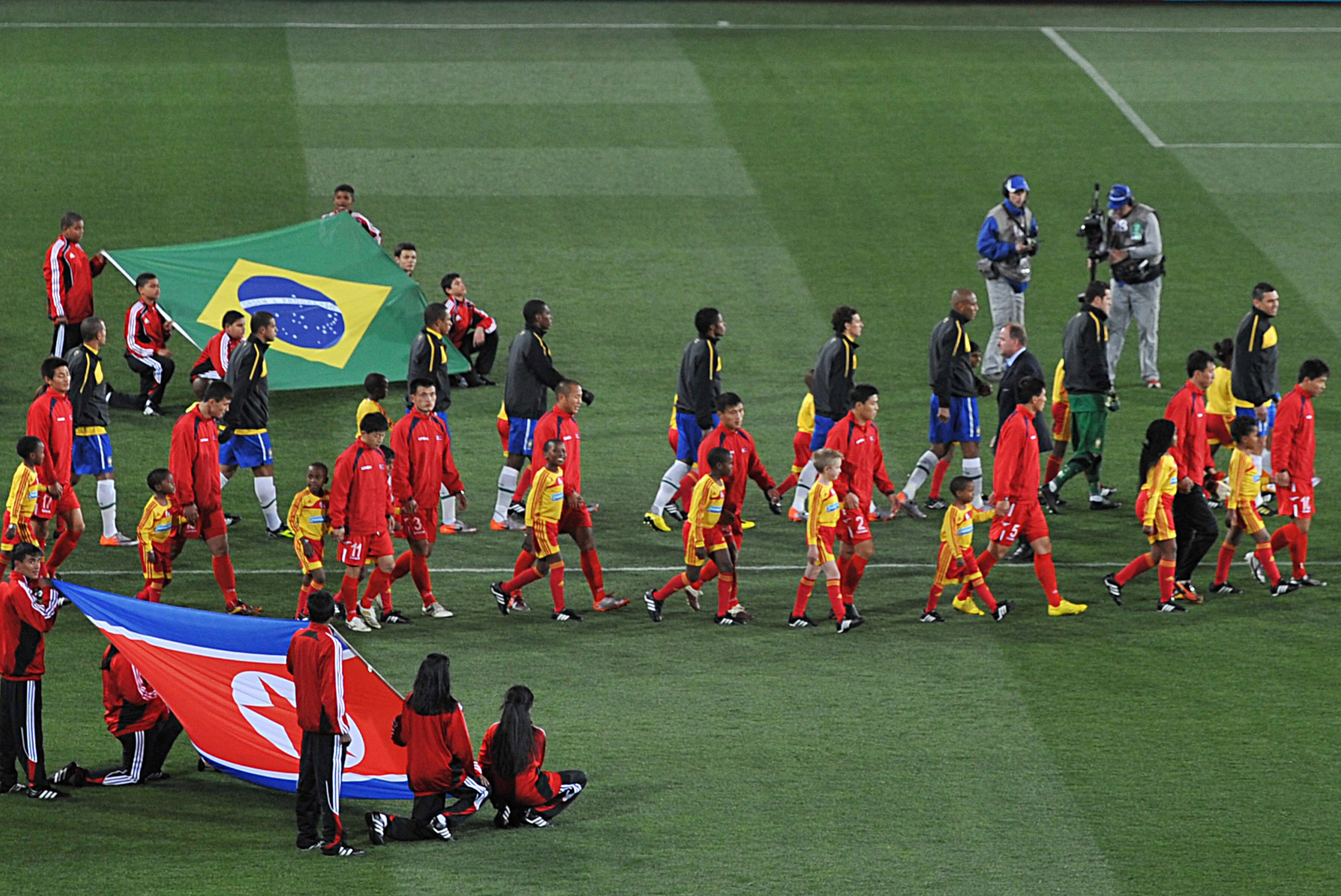 Brazilian national team debut in the 2010 World Cup against North Korea.